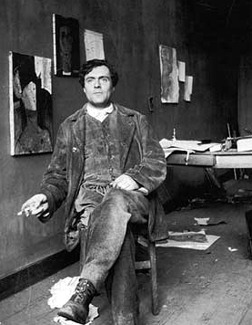 Photograph of Amedeo Modigliani (1884–1920) in his studio rue de la Grande-Chaumière, at Montparnasse.